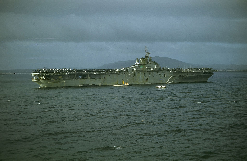 The U.S. Navy aircraft carrier USS Philippine Sea (CV-47) at Gibraltar in February or March 1948. Philippine Sea, with assigned Carrier Air Group Nine (CVAG-9), was at the beginning of her deployment to the Mediterranean Sea from 9 February to 26 June 1948.